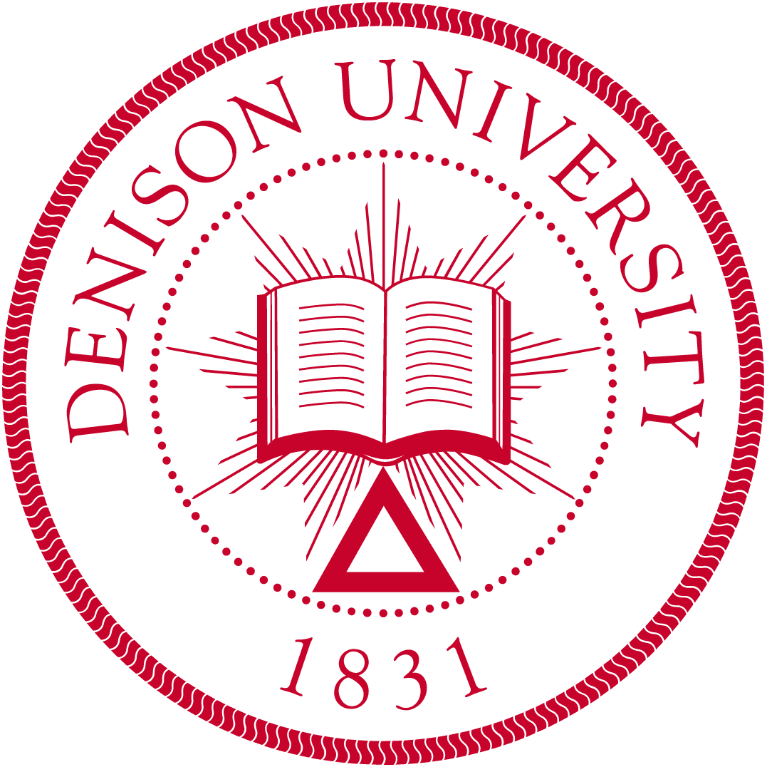 This is the seal logo of Denison University